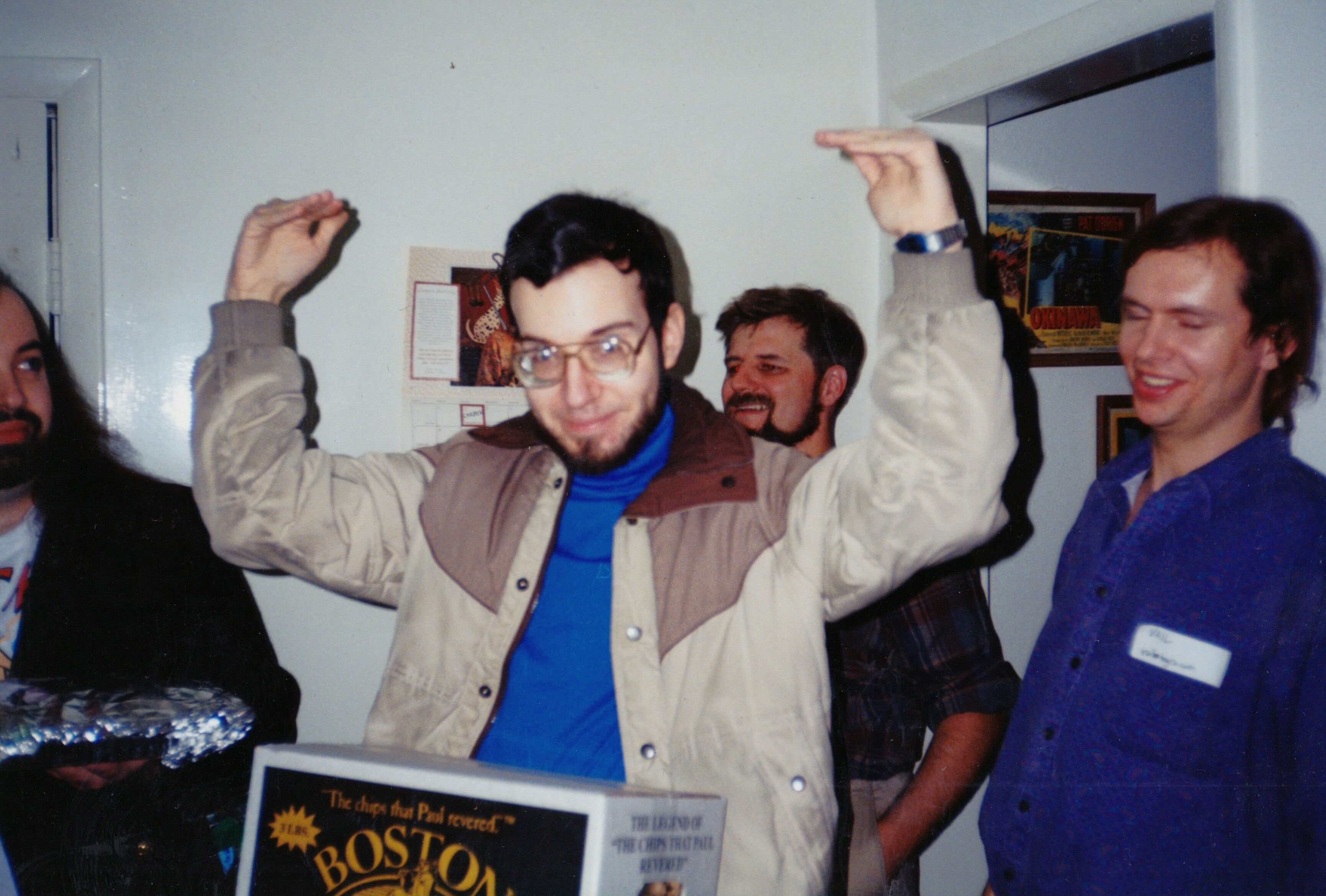 Photo of kibo, founder of alt.religion.kibology